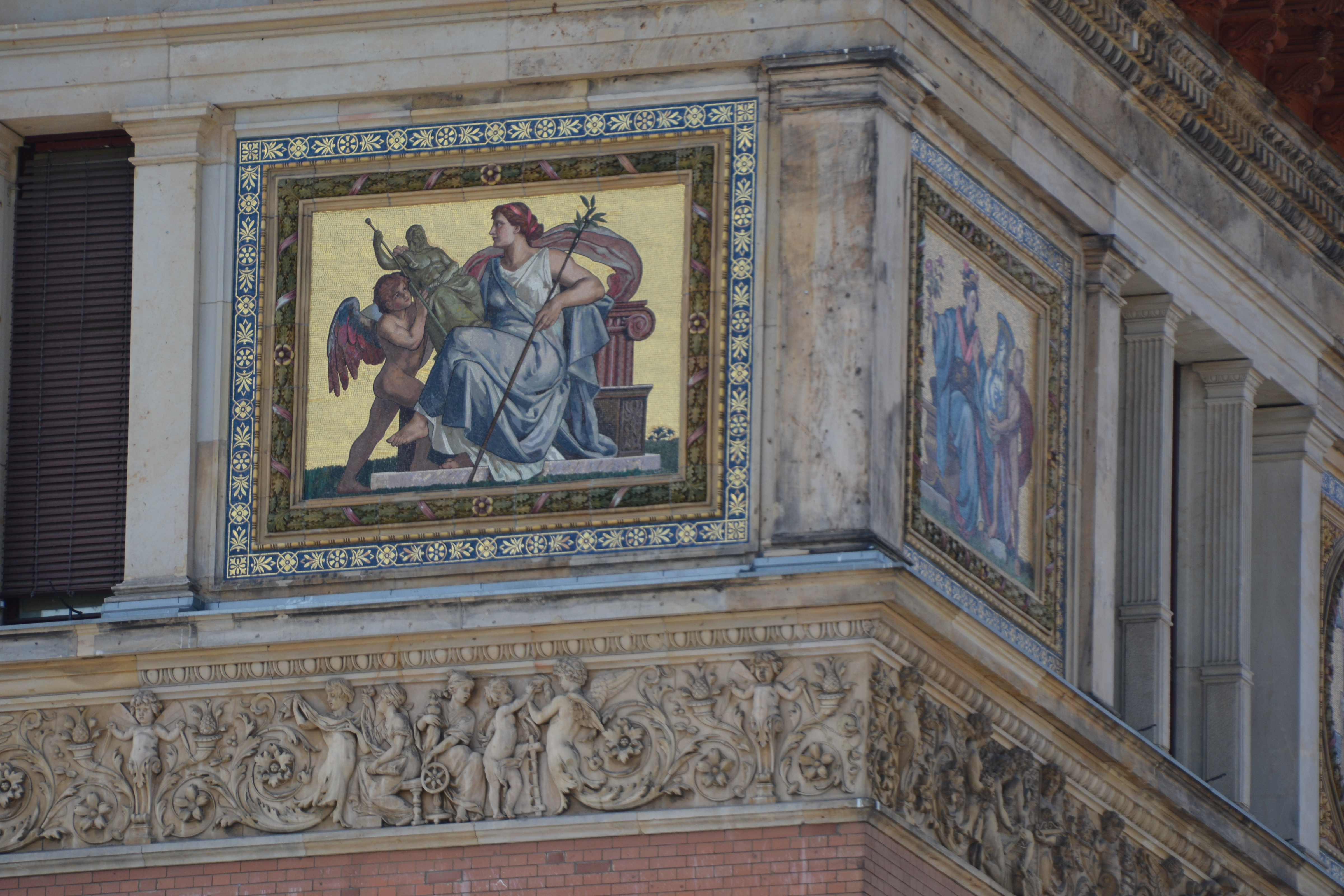 Martin-Gropius-Bau in Berlin Niederkirchnerstrasse. Decoration on facade.